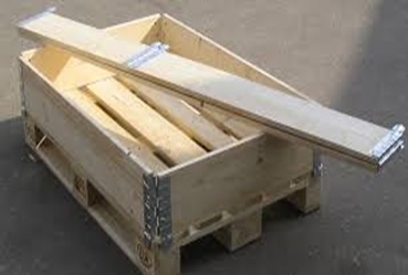 A picture of a wooden pallet collar box